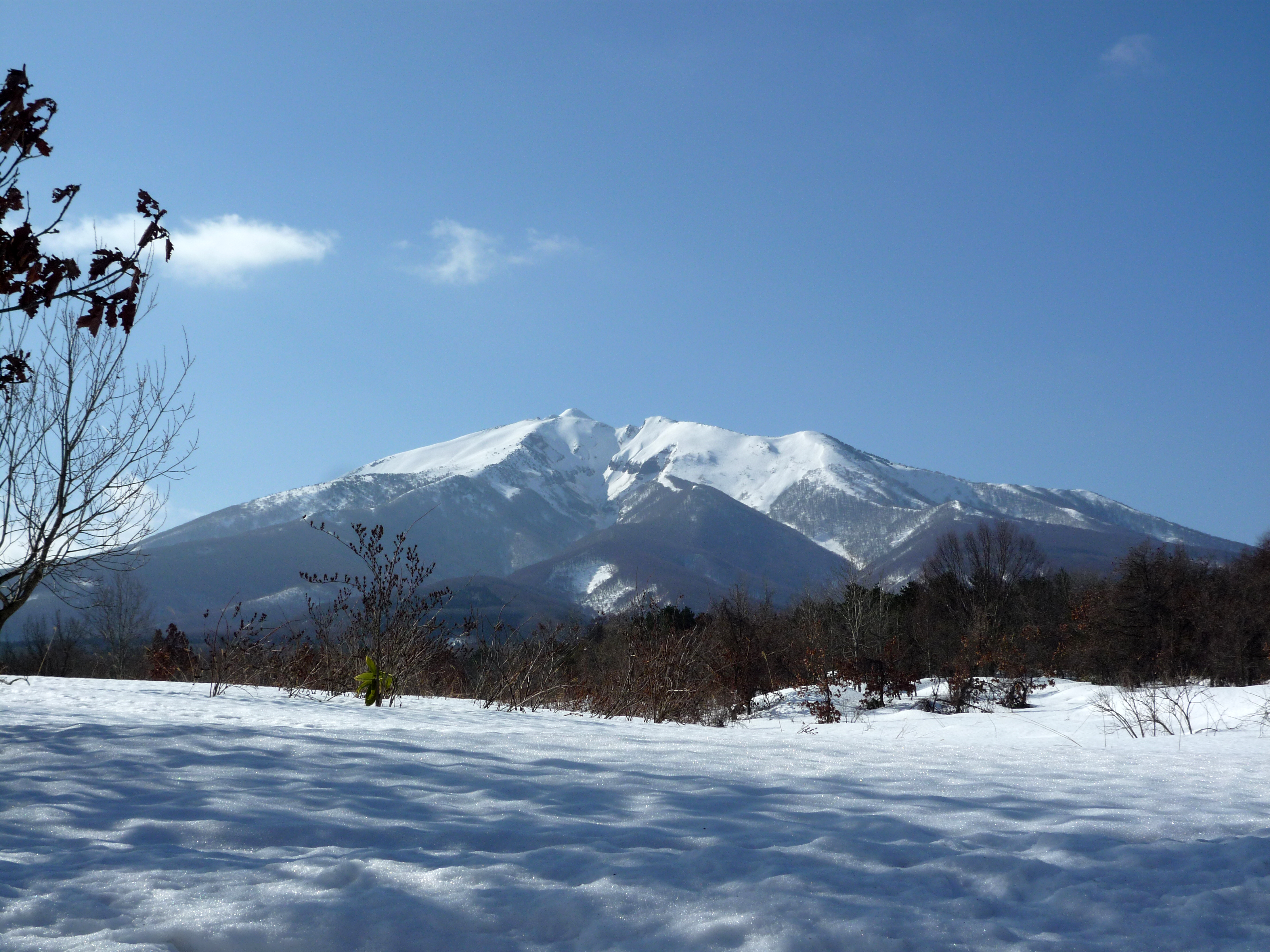 Mount Iwaki in Aomori, Japan.